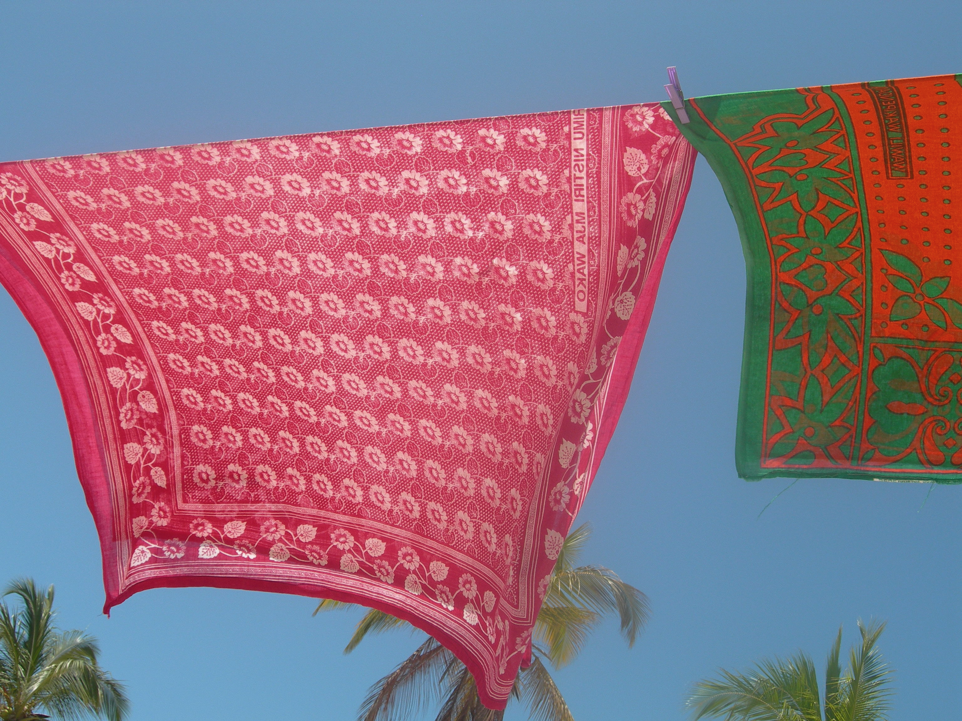 Original caption states "Traditional way of line drying.... ", details of location and time given in photograph of same set as Paje, Zanzibar, Tanzania.